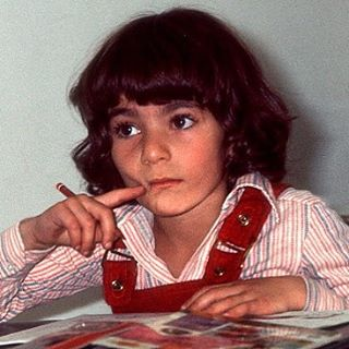 Princess Leila Pahlavi childhood